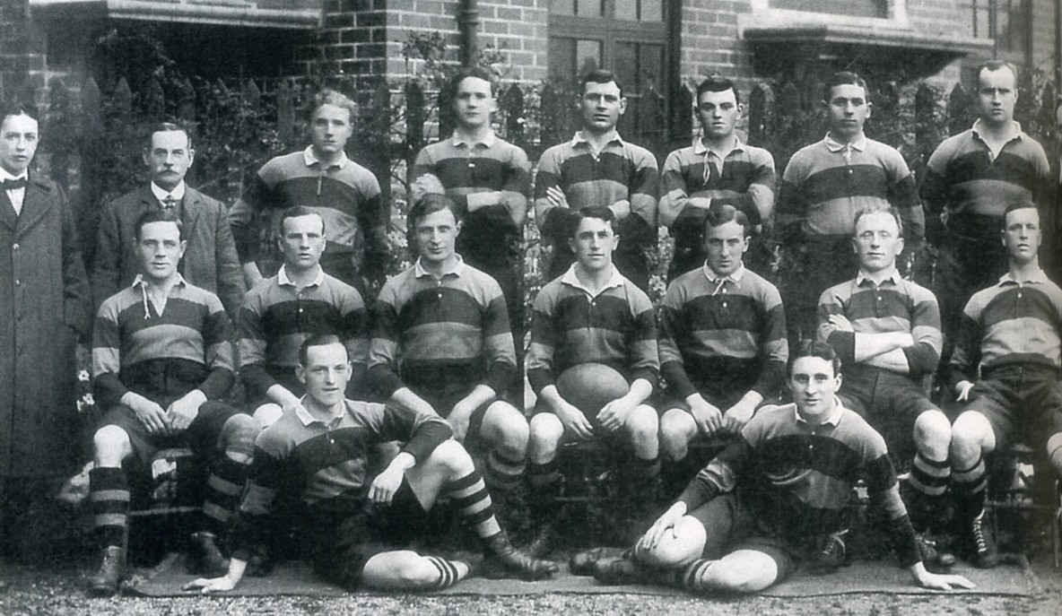 Newport Rugby Club 1912. The team that defeated the touring South African side of 1912-1913